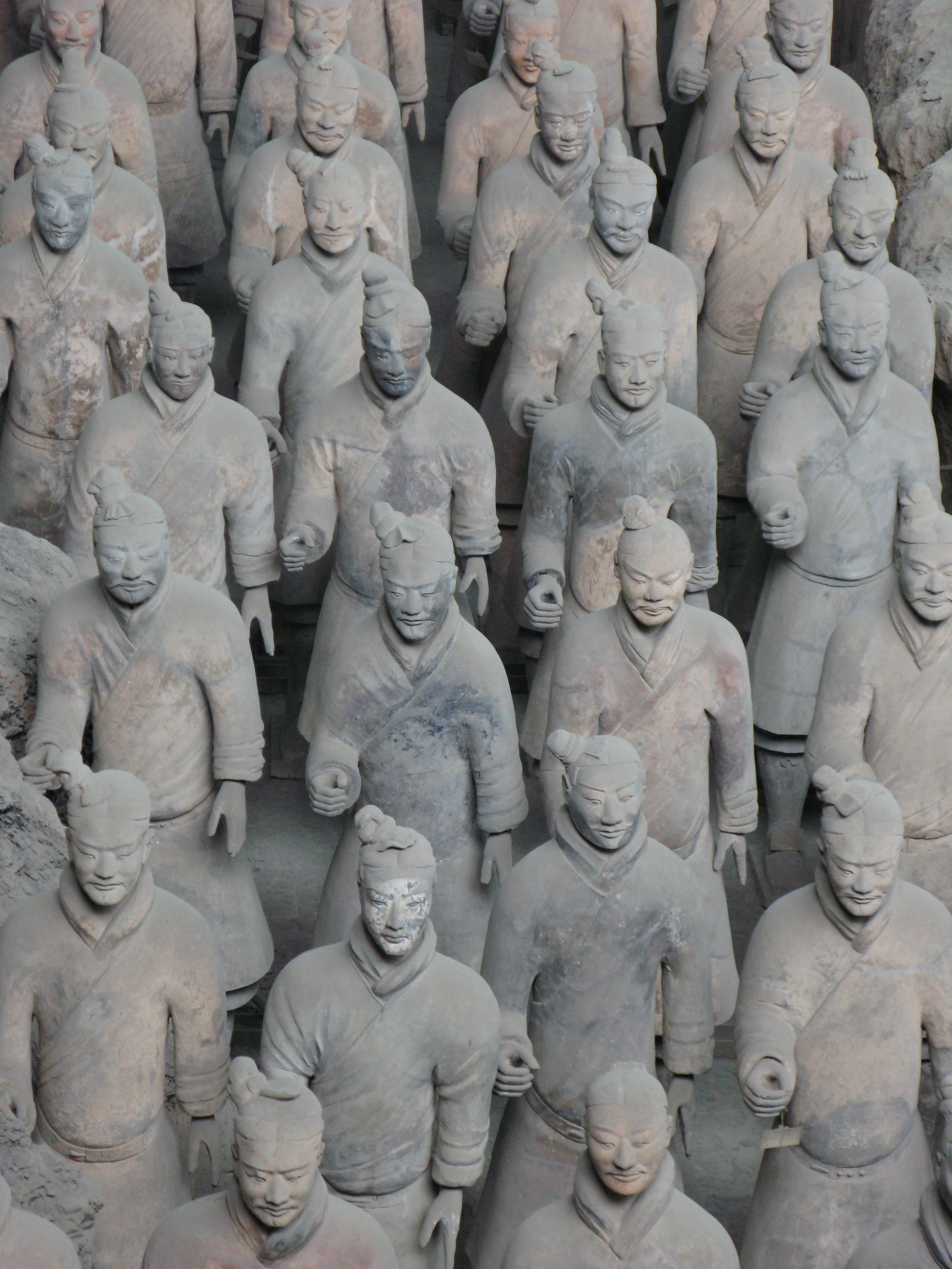 Terracotta warriors near Xi'an in China.